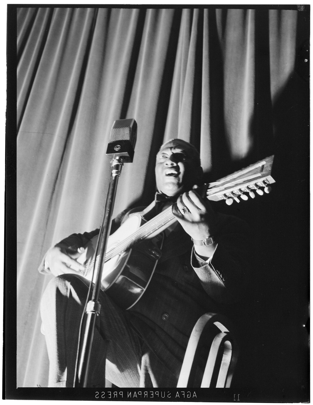 Gottlieb, William P., 1917-, photographer. [Portrait of Leadbelly, National Press Club, Washington, D.C., between 1938 and 1948] 1 negative : b&w ; 3 1/4 x 4 1/4 in. Notes: Gottlieb Collection Assignment No. 201 Purchase William P. Gottlieb Forms part of: William P. Gottlieb Collection (Library of Congress). Subjects: Leadbelly, 1885-1949 Guitarists--1930-1950. Singers--1930-1950. National Press Club Format: Portrait photographs--1930-1950. Film negatives--1930-1950. Rights Info: Mr. Gottlieb has dedicated these works to the public domain, but rights of privacy and publicity may apply. Repository: (negative) Library of Congress, Prints & Photographs Division, Washington D.C. 20540 USA, Part Of: William P. Gottlieb Collection (DLC) 99-401005 General information about the Gottlieb Collection is available at Persistent URL: Call Number: LC-GLB23- 1355 This work is from the William P. Gottlieb collection at the Library of Congress. Rights and restrictions.In accordance with the wishes of William Gottlieb, the photographs in this collection entered into the public domain on February 16, 2010.